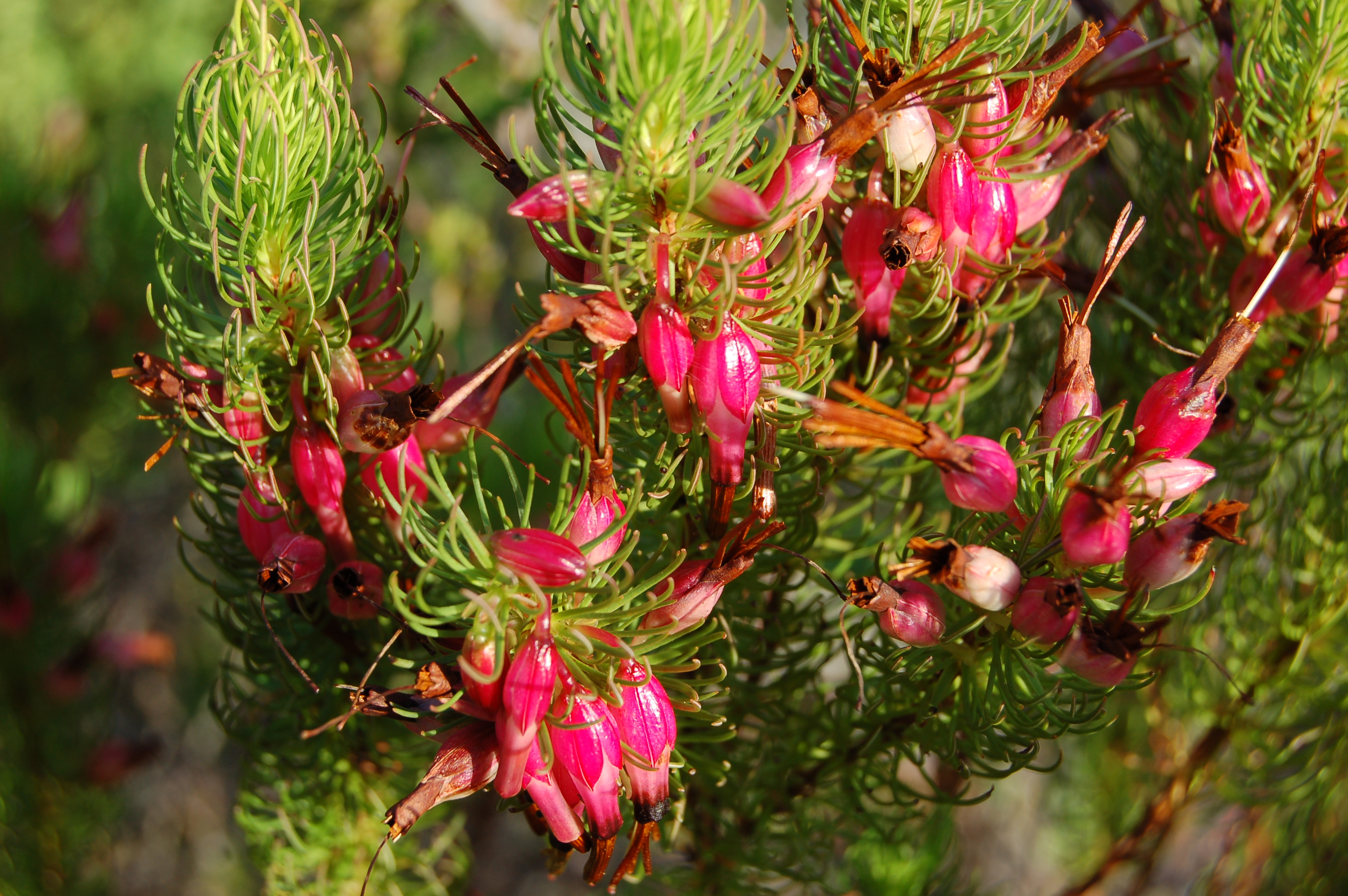 Western Cape Fynbos, South Africa